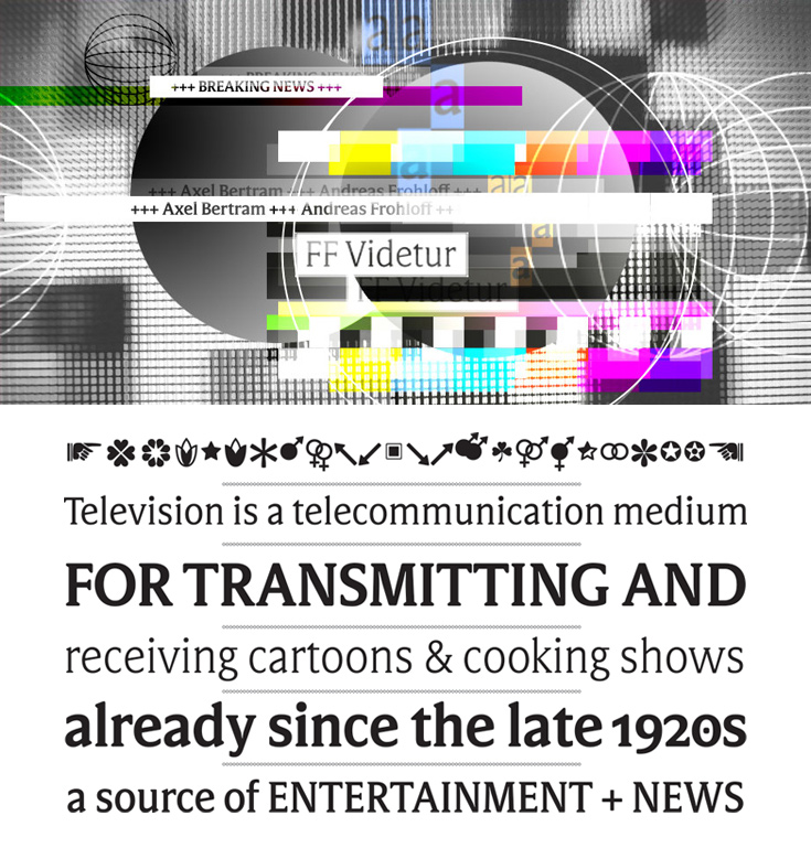 FF Videtur Designed by Axel Bertram, Andreas Frohloff Published by FontFont